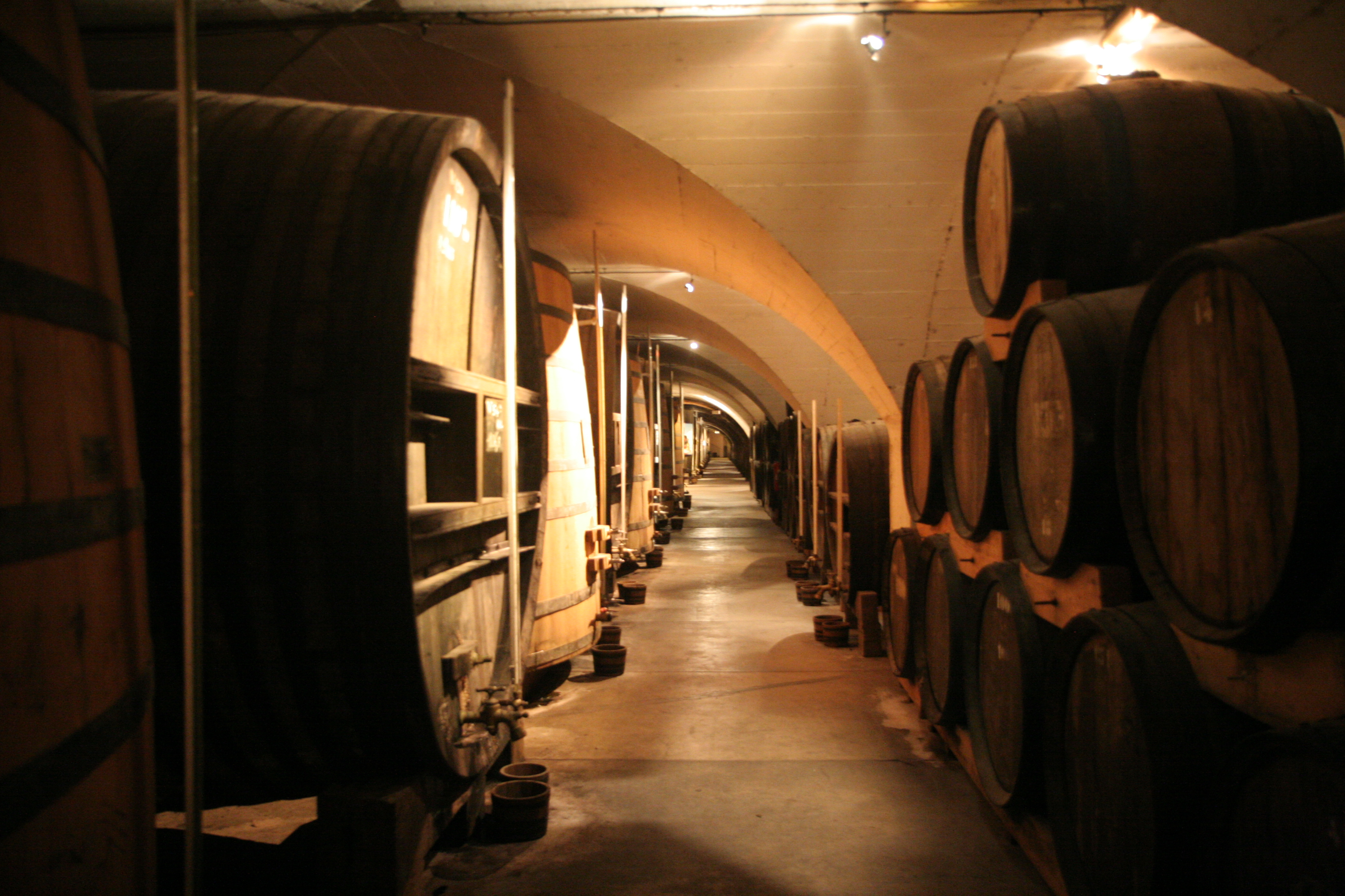 The Chartreusecellars